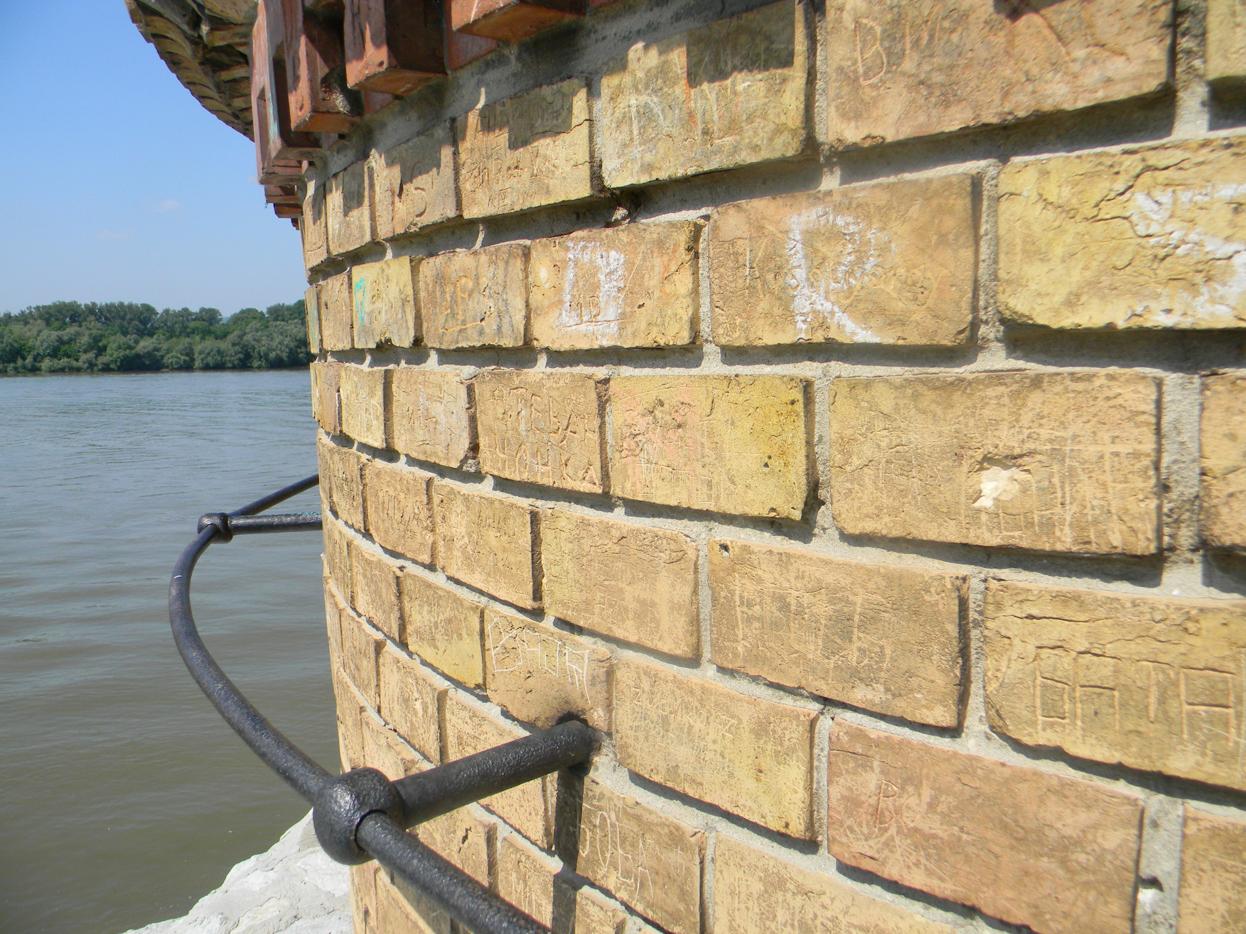 The lighthouses on the river Tamiš in Pančevo. Old Graffiti